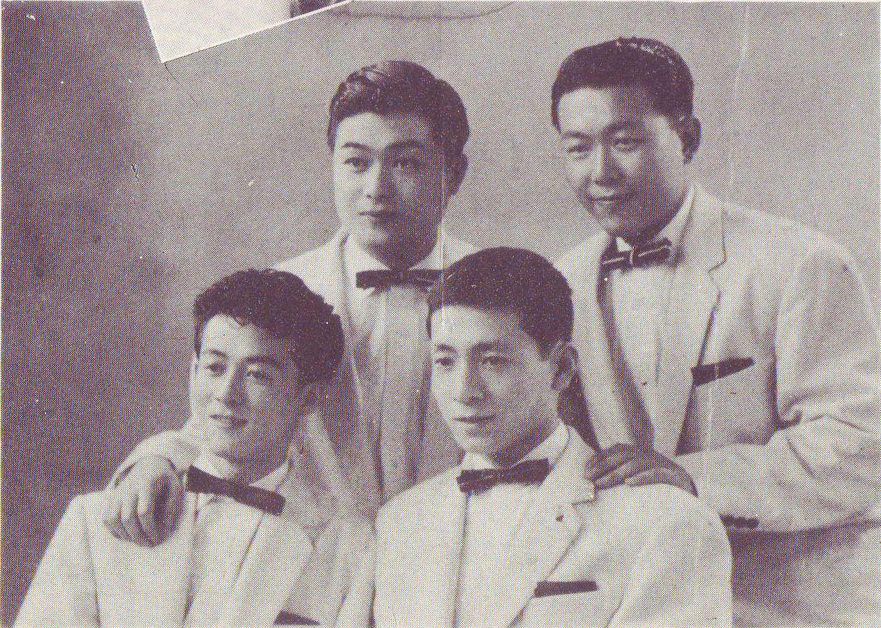 "Dark Ducks" (Japanese Chorus Group). taken in 1956. Hajime "Zo (Elephant) " Toyama (Left in the back row), Tetsu "Geta" Kiso (Back row right), Hiromu "Paku" Takamizawa (Left in the front row), Toru "Manga" Sasaki (Front row right).